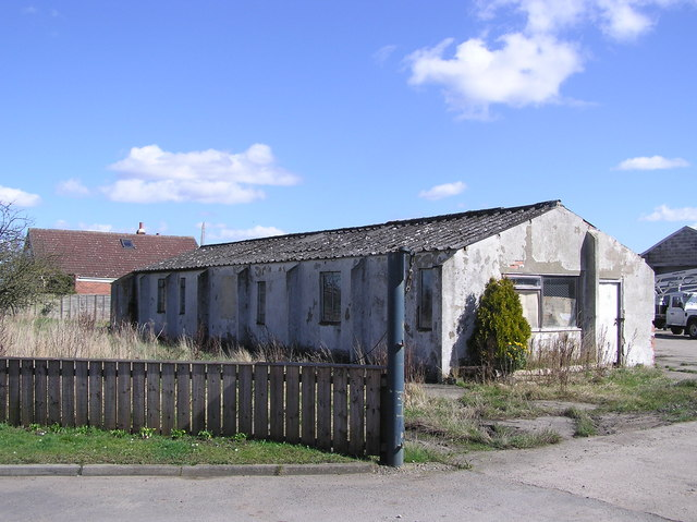 RAF Building : Cockleberry Saw Mill. Part of RAF Croft WWII.